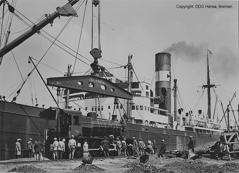 Unloading of a Locomotive from freighter UHENFELS